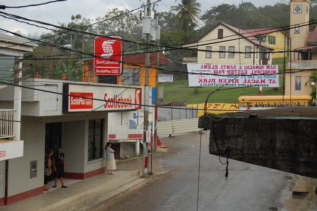 San Ignacio, Belize